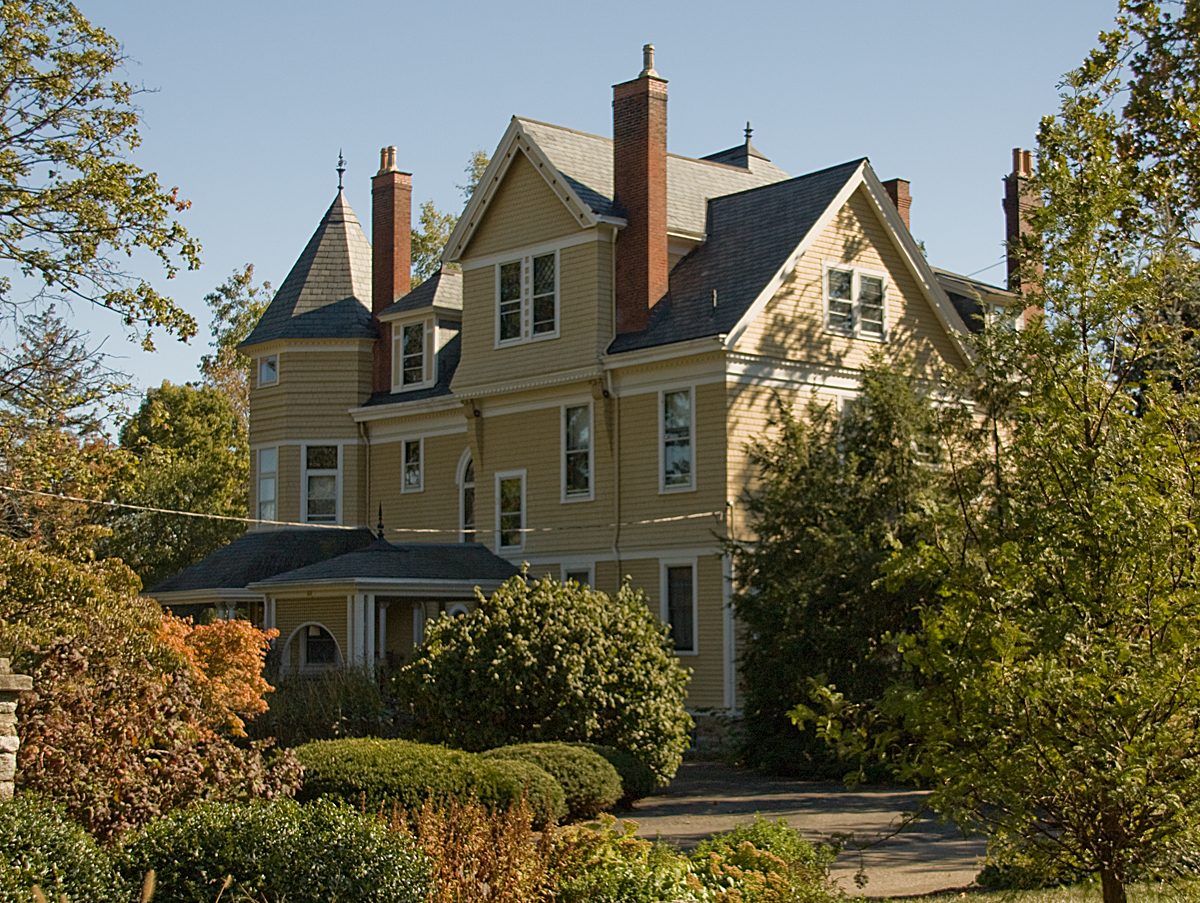 Josiah Kirby House in Wyoming, OH. Photo by Greg Hume